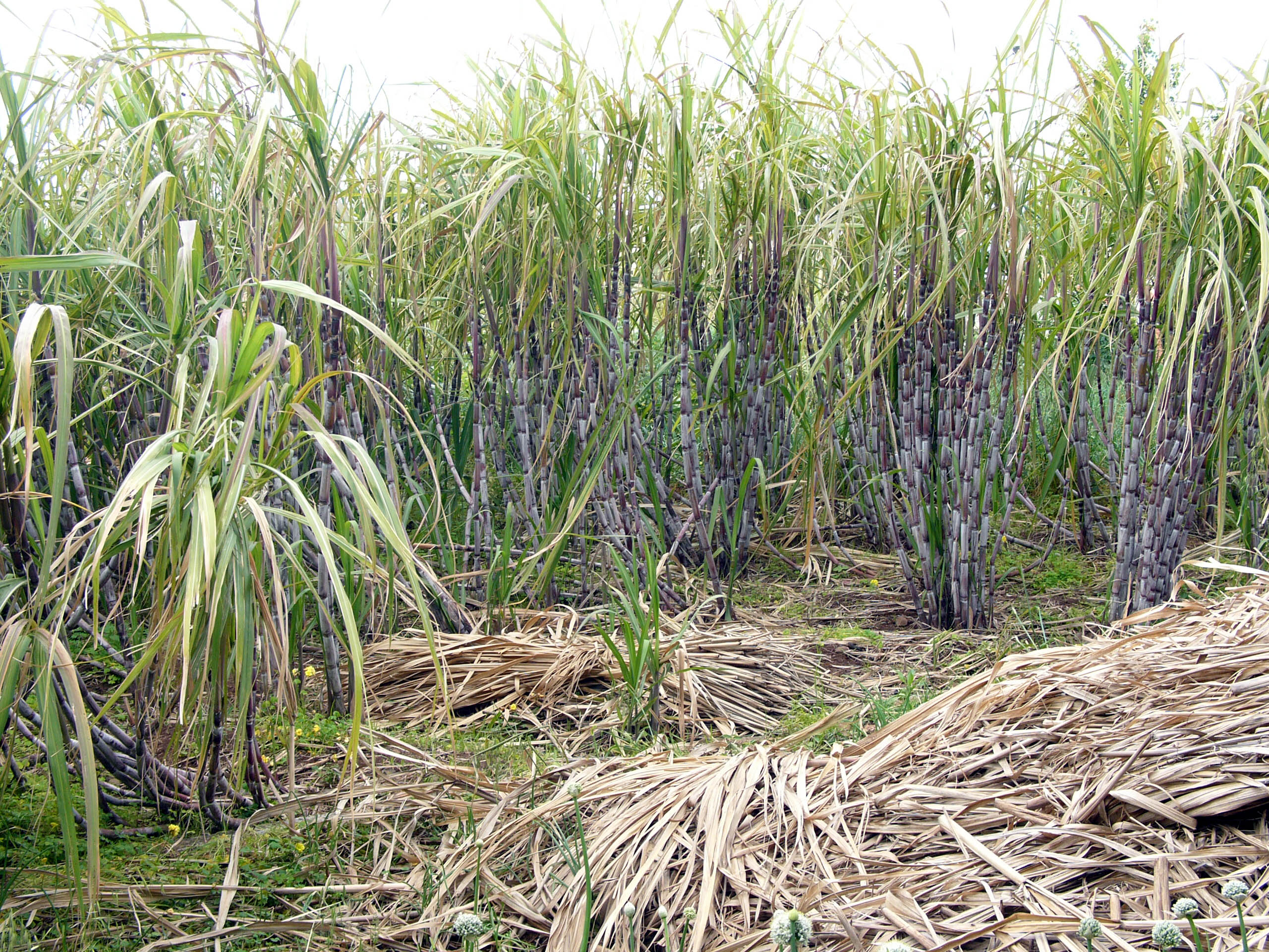 Small sugar cane field on Madeira